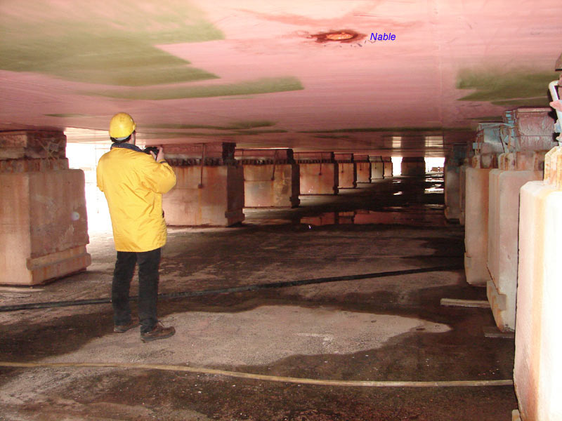 Under the hull of the Chassiron, in dry dock.